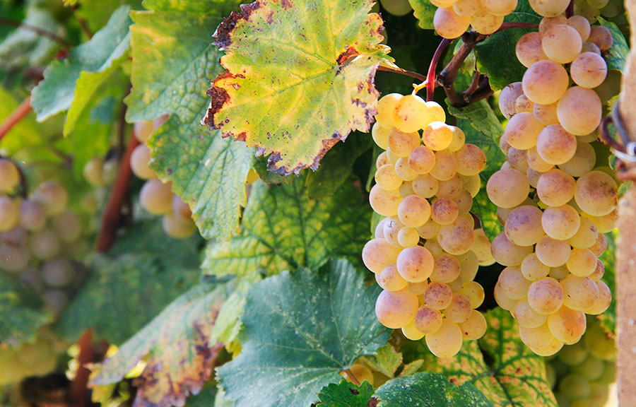 Kakheti, Georgia — Vines